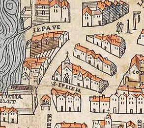 Saint-Julien-le-Pauvre church on the Plan de Truschet and Hoyau (1550).